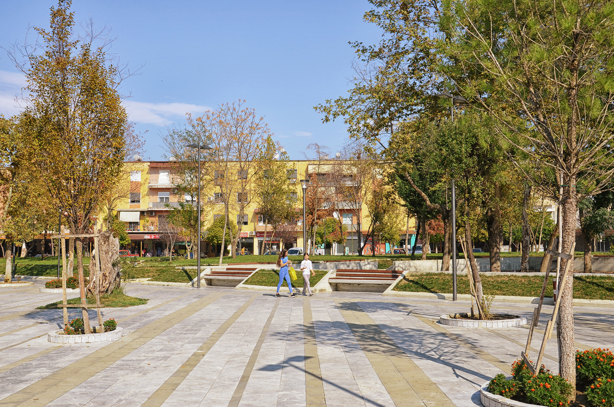 The main square of Cërrik, Albania